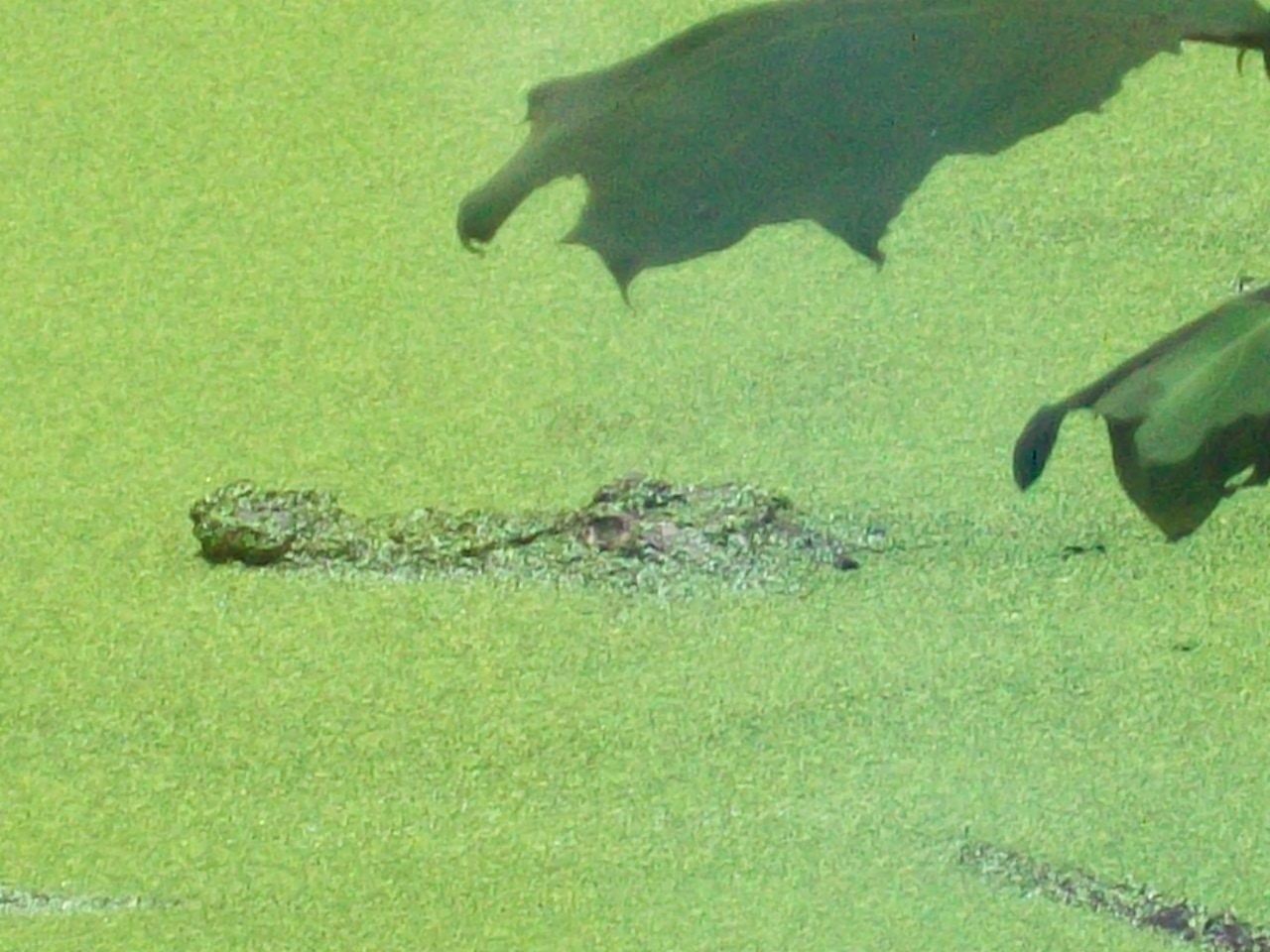 Caiman crocodilus in its wetland within Simon Bolivar zoo, San Jose, Costa Rica.